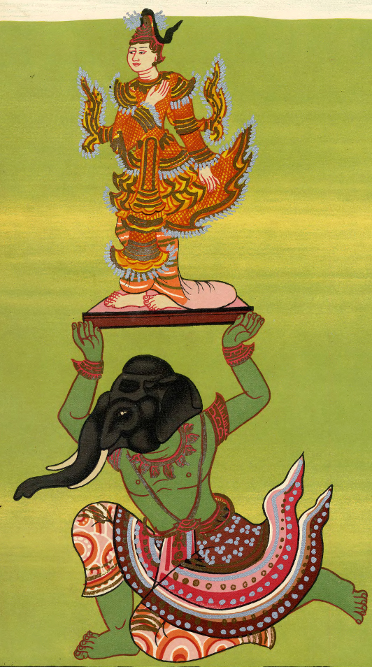 Thonbanhla nat (spirit), th in the official pantheon of Burmese nats